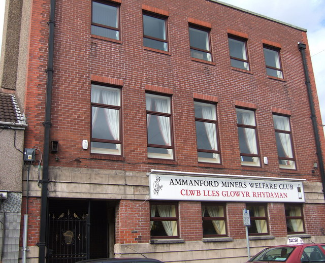 Miners' Welfare Club, Rhydaman/Ammanford Built in the 20's from funds raised by the workers themselves, this was once an important focus of local community and cultural life It provided a venue for visiting speakers, political debate, educational and recreational activities as well as source of mutual support during strikes. Nowadays it is largely a drinking club but the top floor has been turned into a small mining museum which is well worth visiting.